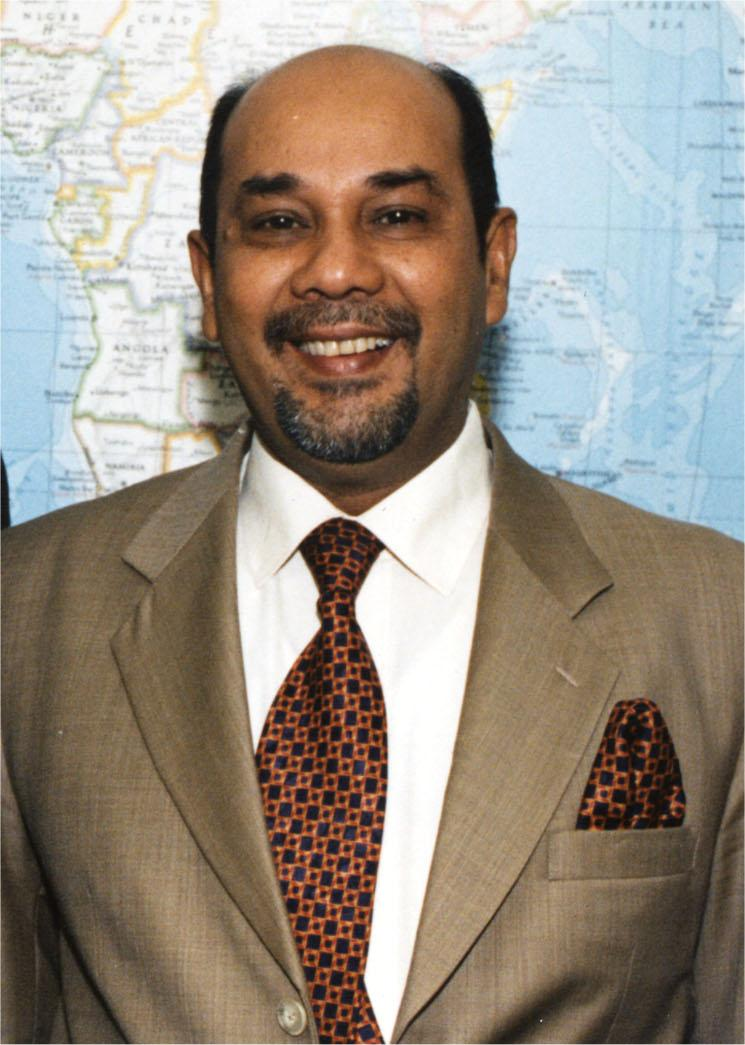 Photograph: Secretary of Defense hosted Honor/Cordon in honor of His Excellency Syed Hamid bin Syed Jaafar Albar, Minister of Defense of Malaysia 002, 20 Mar 1997, 1 photo. (cropped from original photograph) Secretary of Defense Cohen and MOD Albar standing in front of large world map.